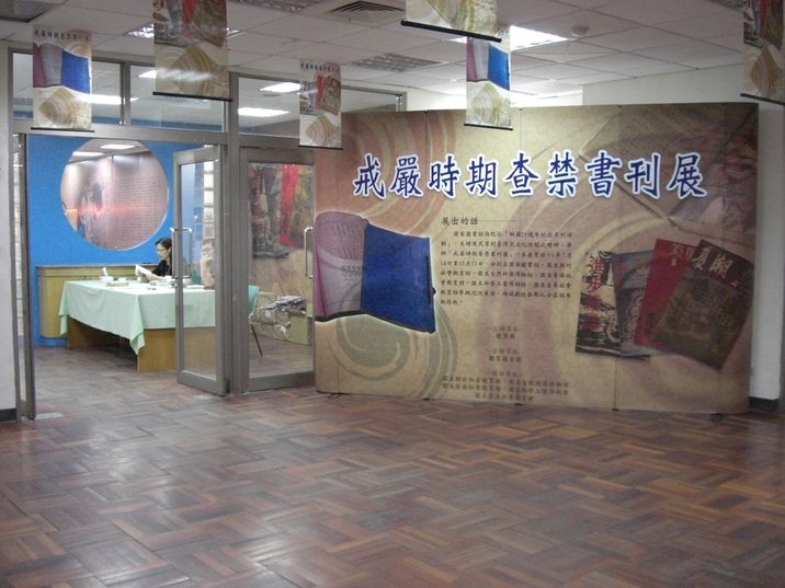 "Exhibition of Publications banned during the Period of Martial Law" in Tainan.